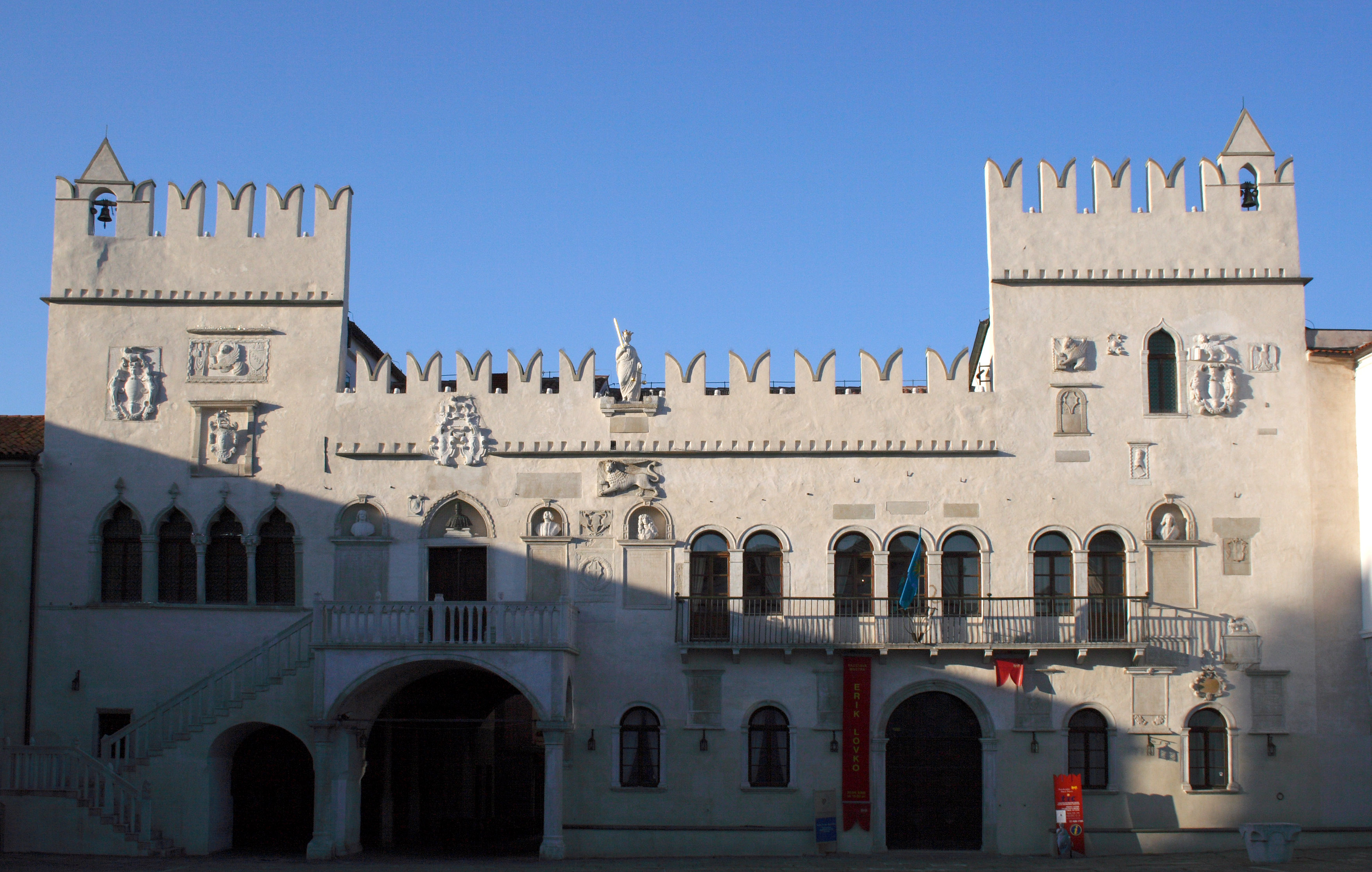 Praetor Palace in Koper at sunrise